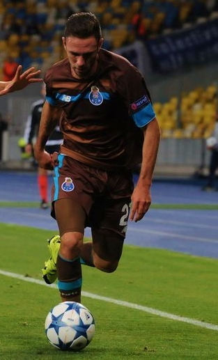 Miguel Layún